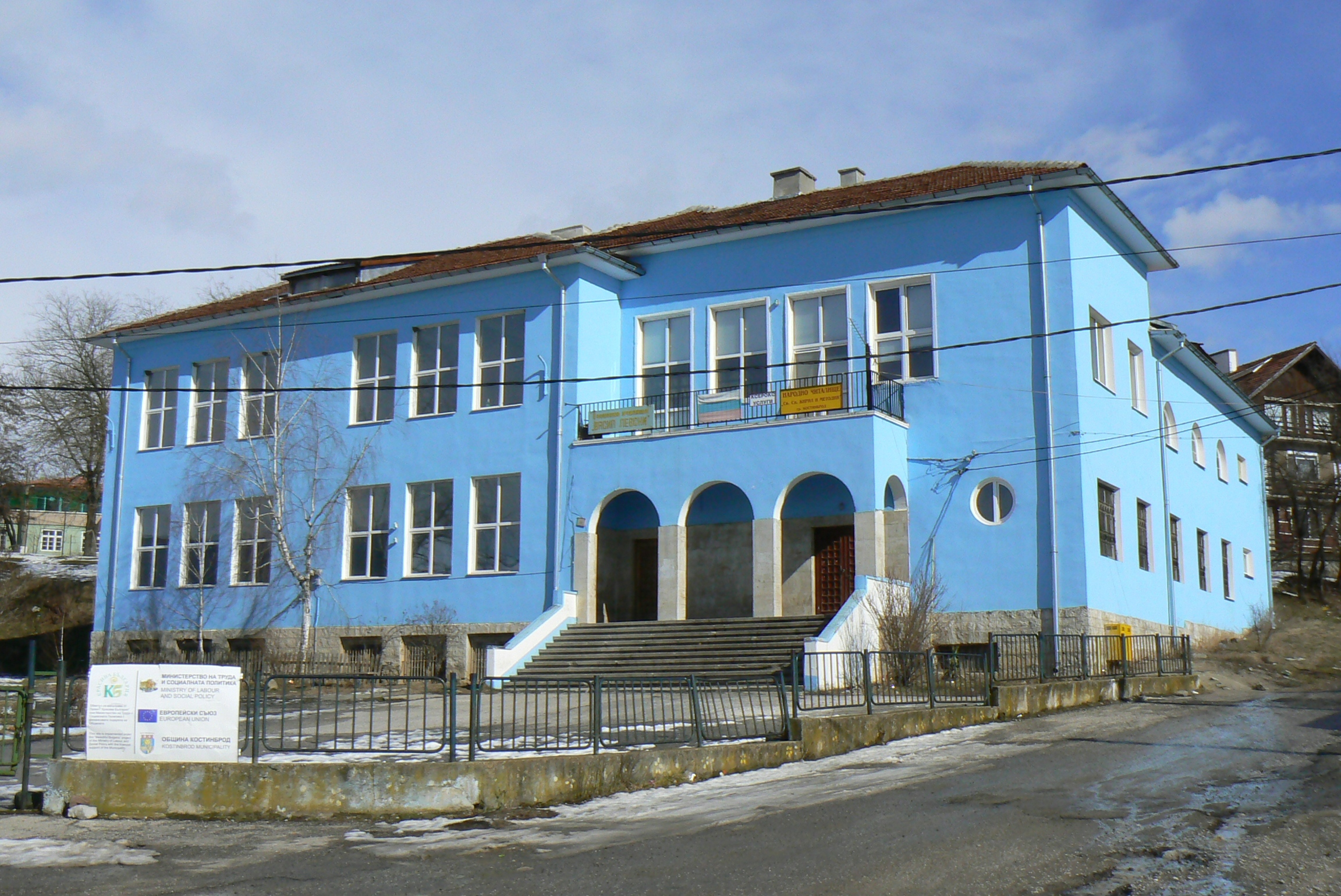 Library / community centre "Saint Cyril and Methodius" and 1st Elementary school "Vassil Levski", Kostinbrod, Bulgaria